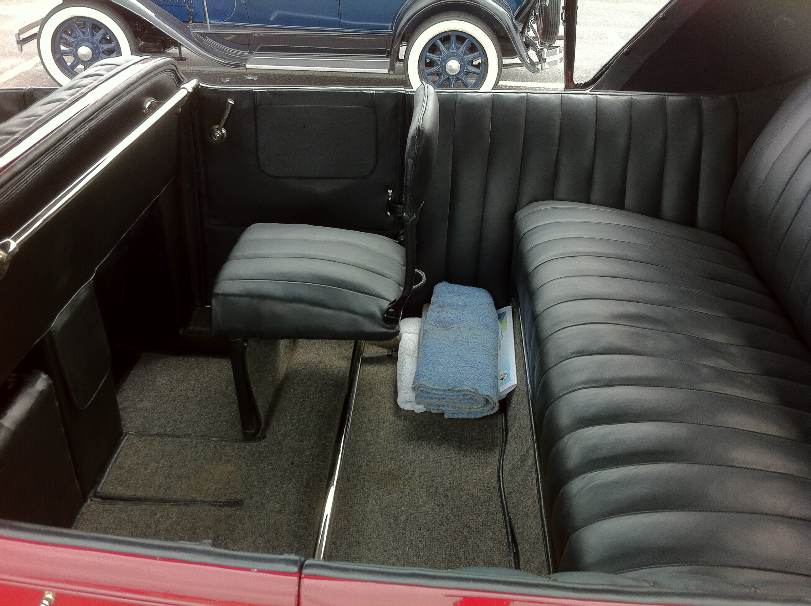 Rear passenger area with one of the folding "jump" seats open in a 1921 Hudson Super Six Phaeton finished in red and black. Picture taken at the 2012 AACA "Central Meet" held in Cedar Rapids, Iowa, USA.